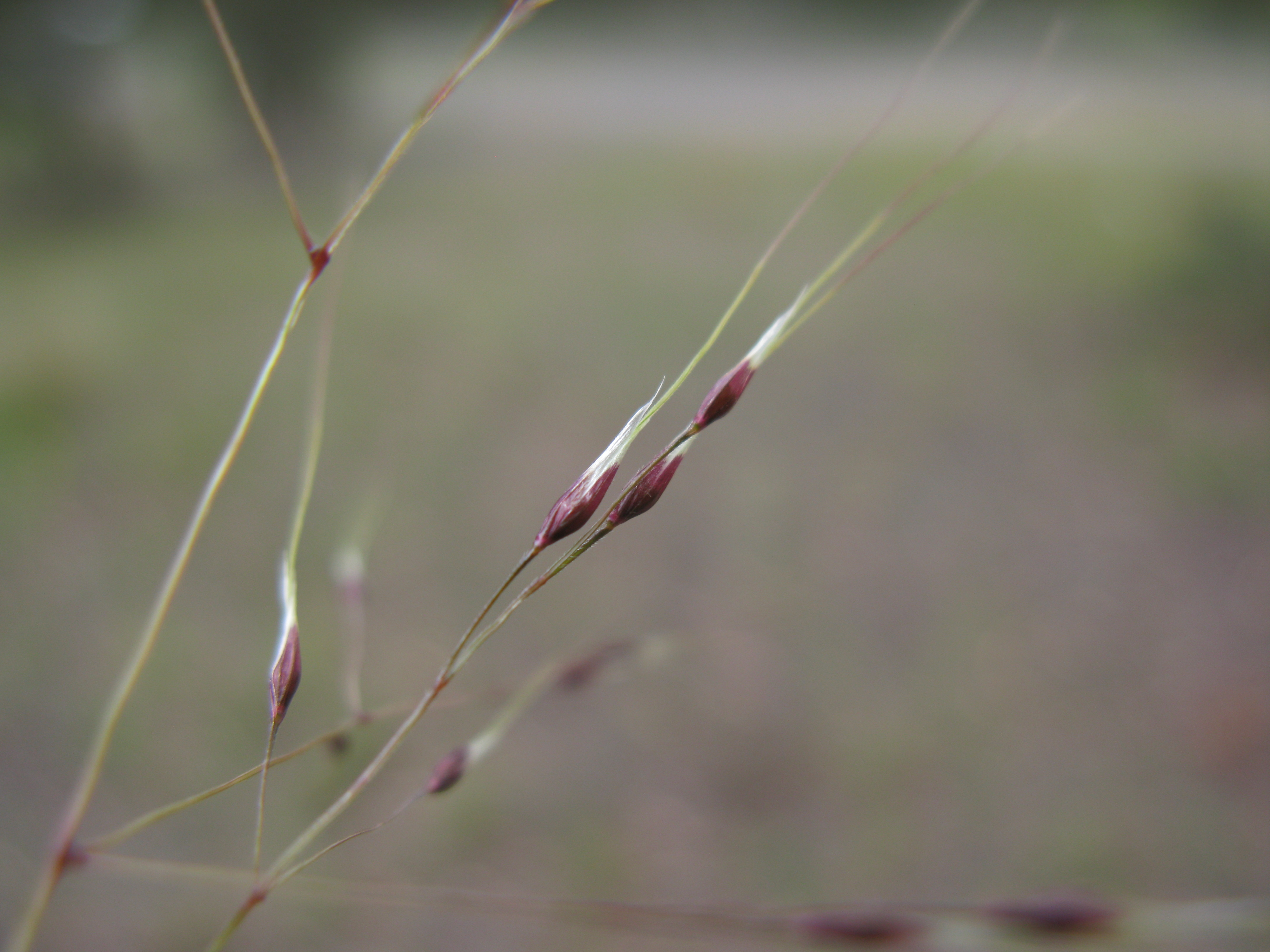 Flowerheads are open panicles to 25 cm long; they break off at maturity and blow along. Spikelets are 1-flowered and have 2 purplish glumes. Lemmas are 1.5-2 mm long and about as broad, with a nearly straight, 2-3.5 cm long awn attached off-centre.